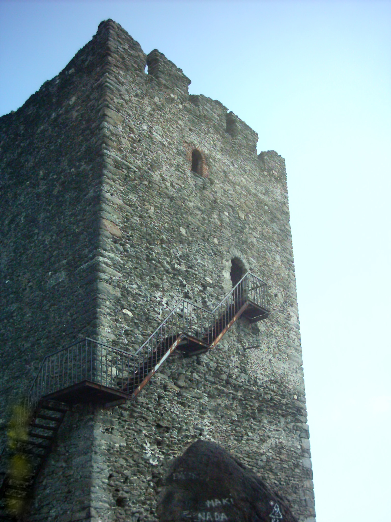 Vrsac tower.